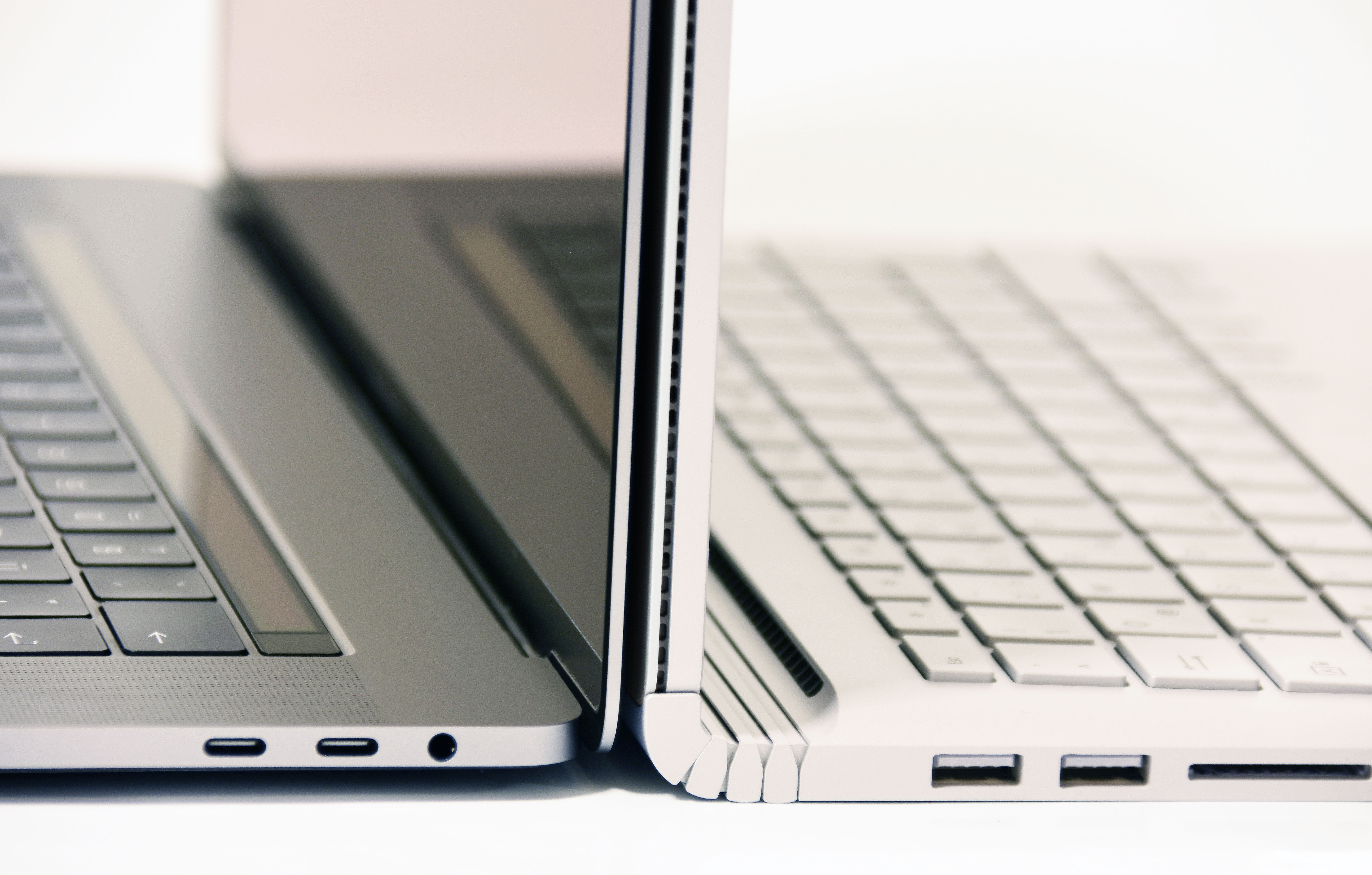 MacBook Pro and Surface Book